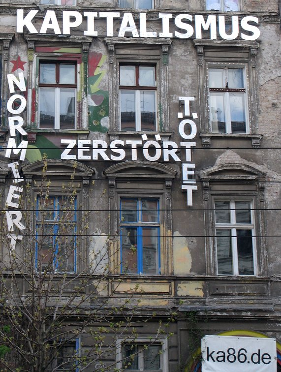 Ant-capitalism at Kastanienallee 86 in Berlin-Prenzlauer Berg